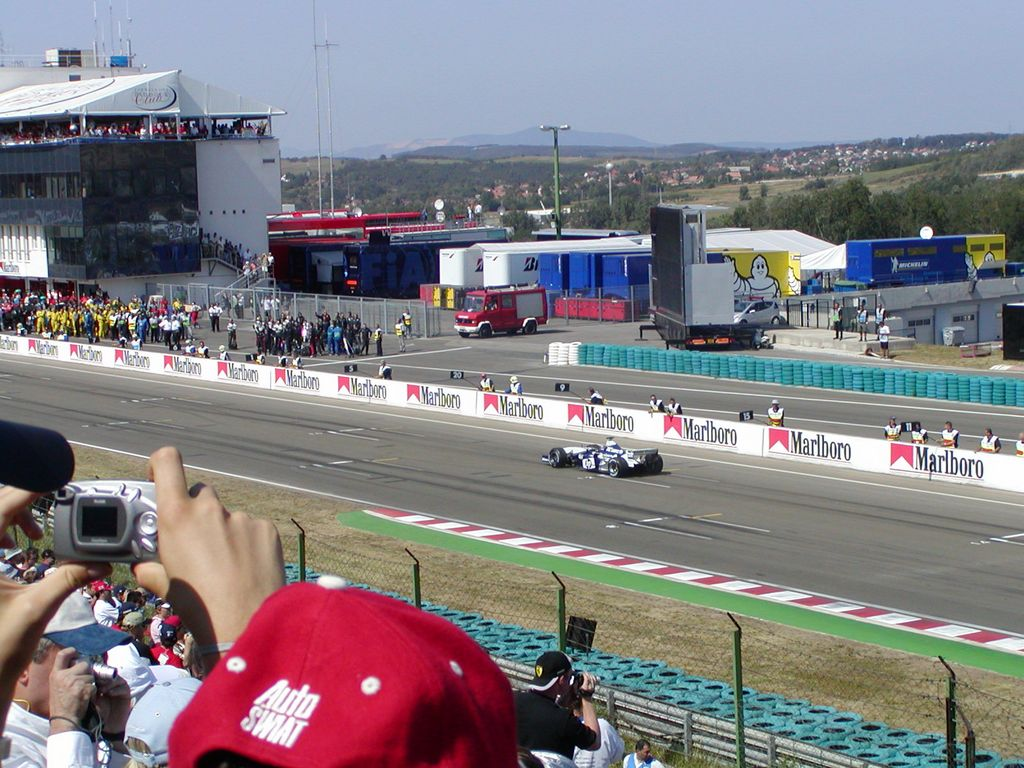 Williams lining up for start at the 2003 Hungarian Grand Prix.